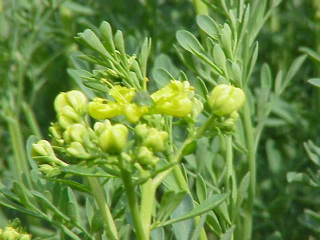 Species: Ruta graveolens Family: Rutaceae Image No. 12